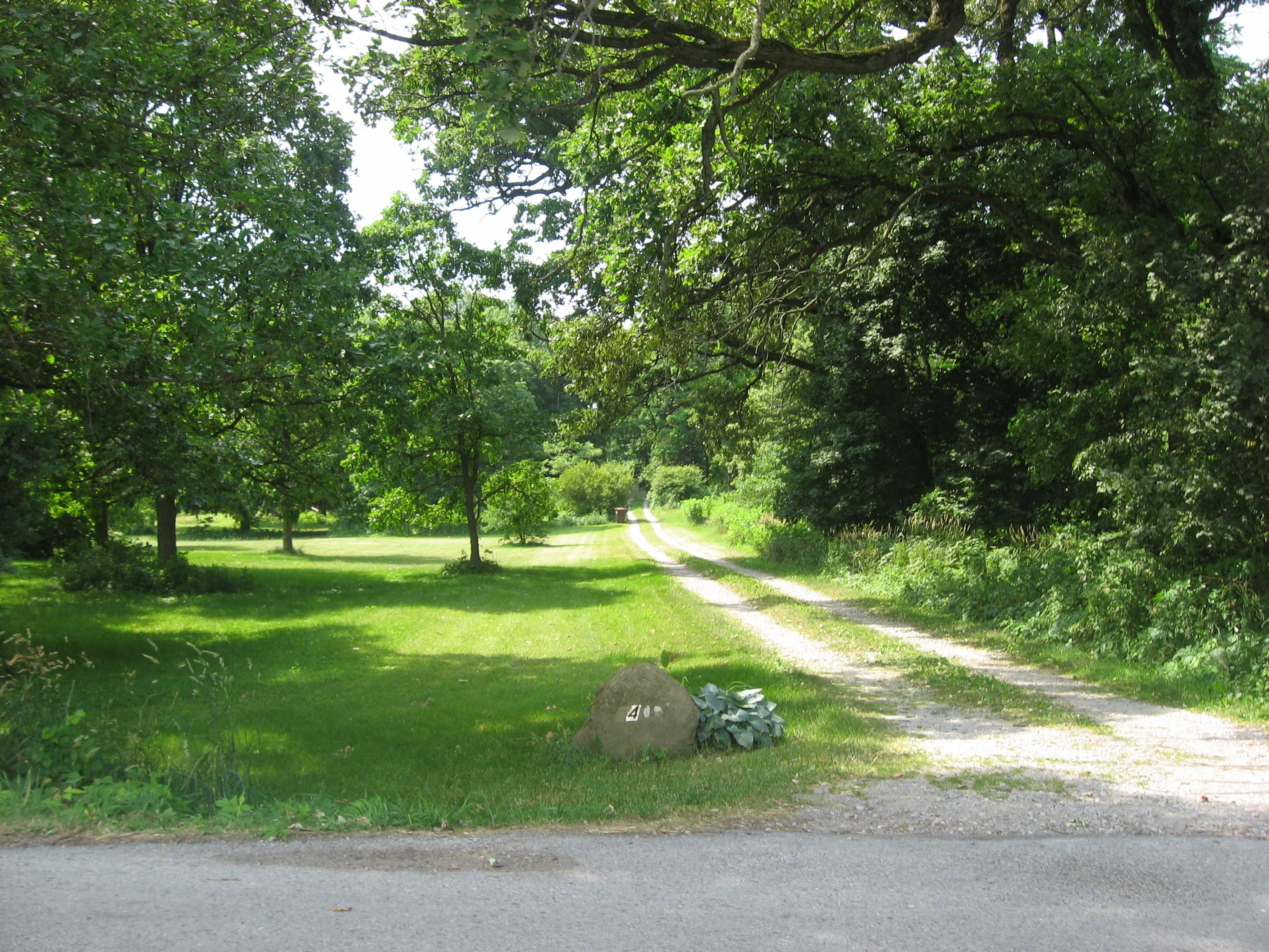 Driveway to the Kingsbury-Doak Farm, located at 4411 E. 153rd Avenue west of Hebron in Eagle Creek Township, Lake County, Indiana, United States. The farmhouse is listed on the National Register of Historic Places.